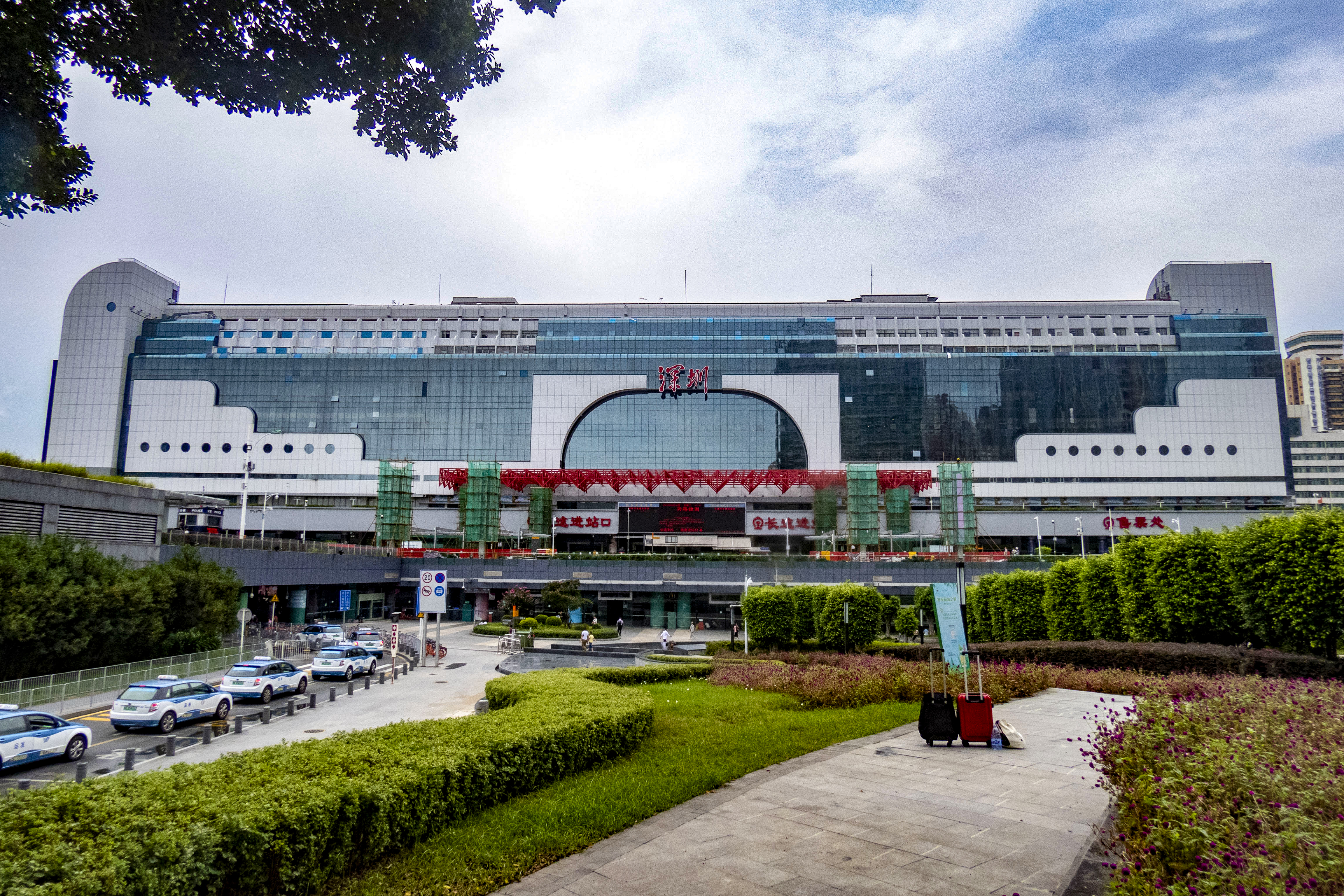 No place for orthophoto.